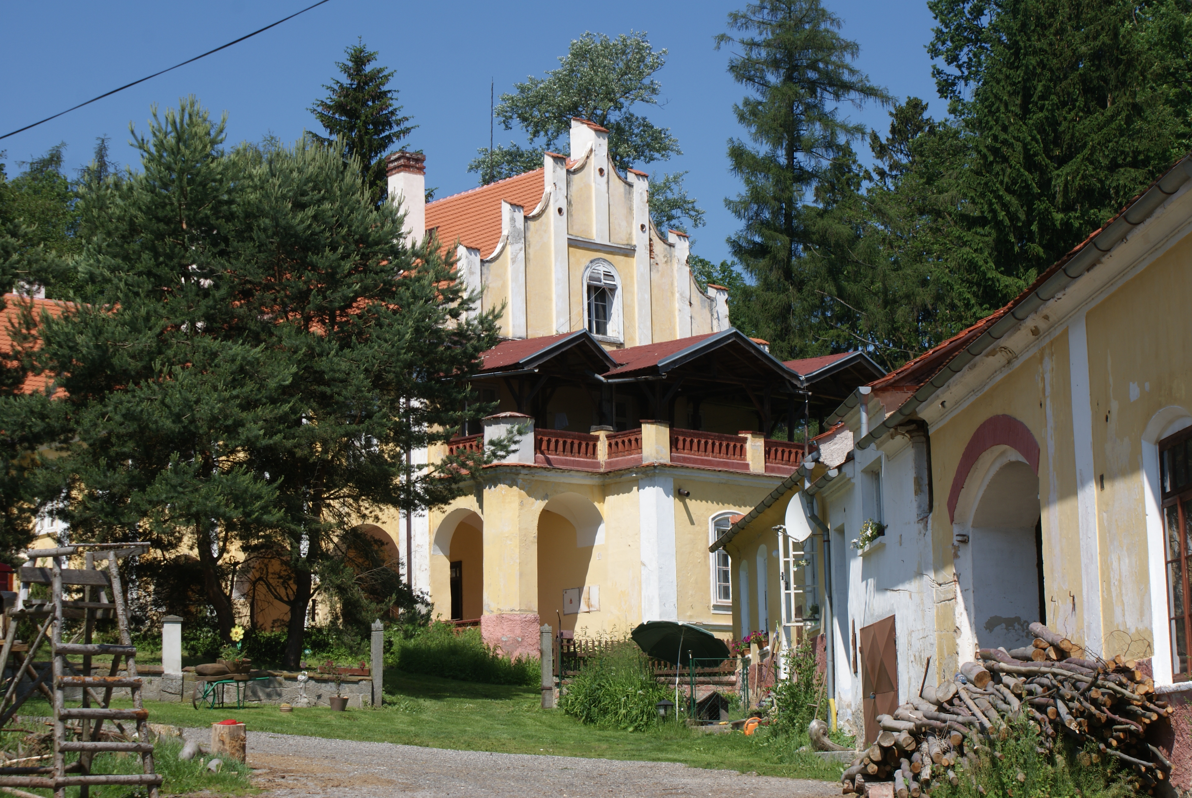 Vojnice, part of Volenice, a village in Strakonice district, Czech Republic, a homestead house.